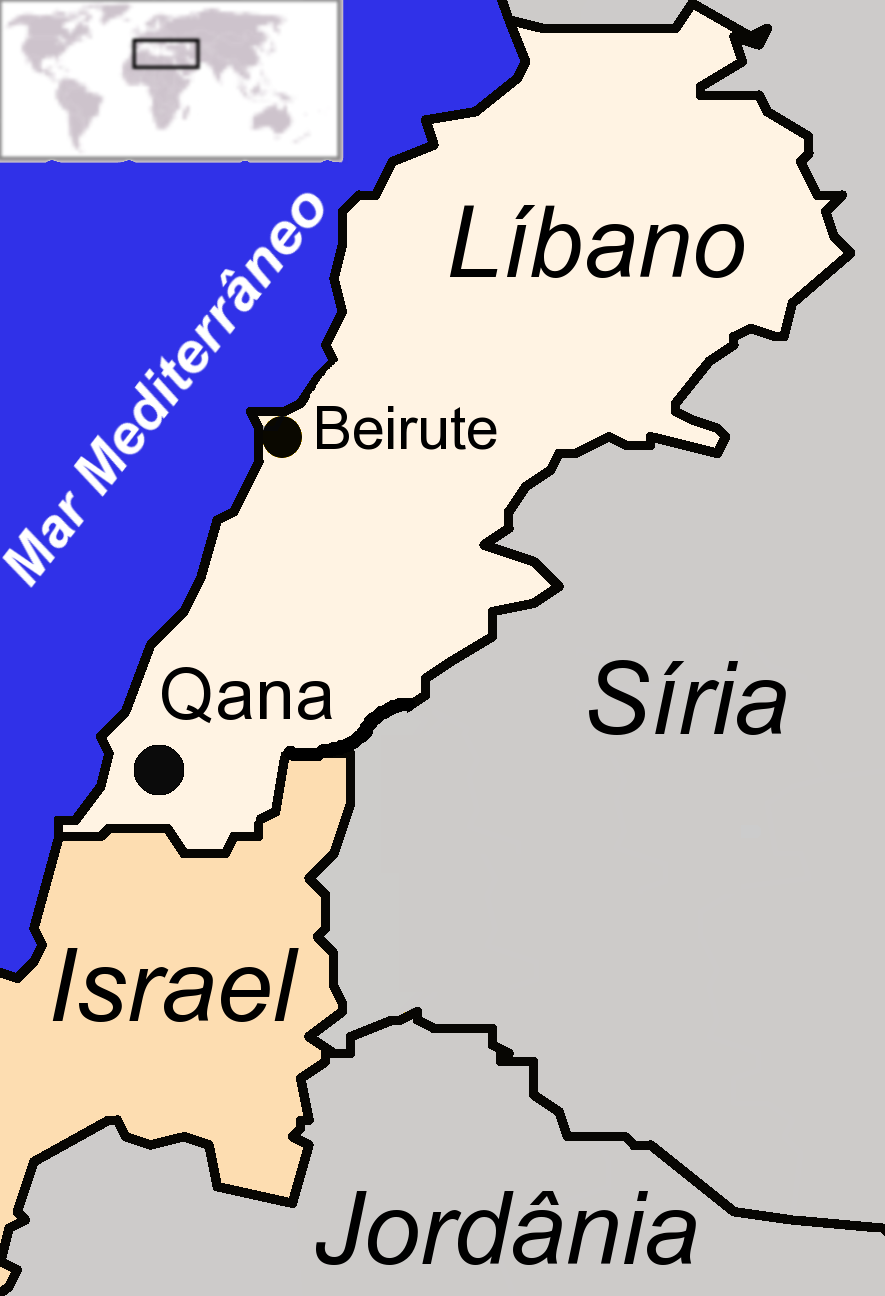 Qana location in Leban